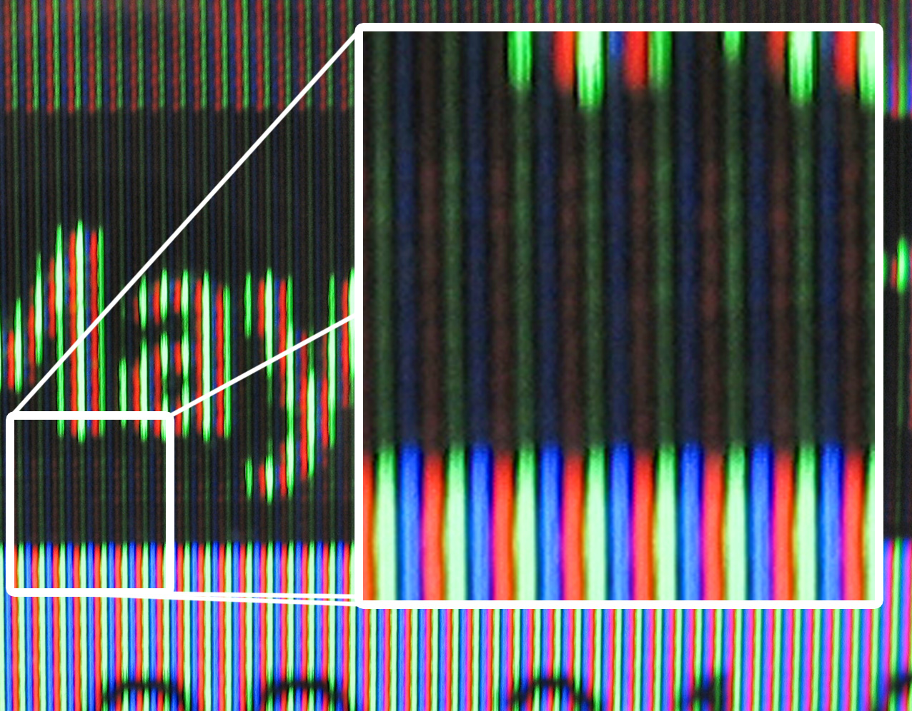 Close-up of the phosphor bars on a Sony Trinitron colour television. (14" UK PAL model, mid 1990s). Taken at speed significantly less than 1/25 second, so horizontal scanlines will be somewhat merged, leaving vertical (physical) phosphor bars. Includes enlarged section.